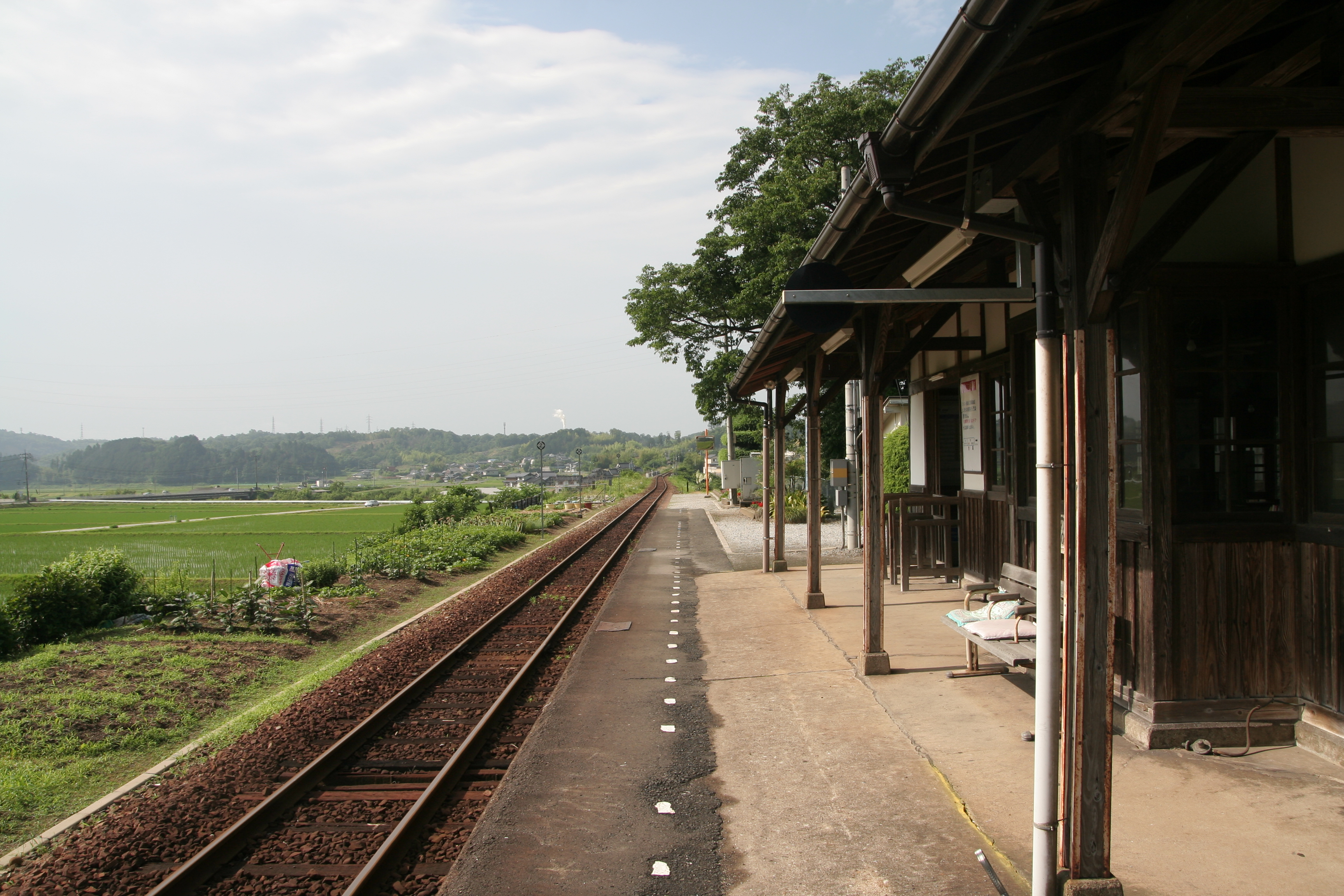 West Japan Railway Inbi Line Miura station enclosure